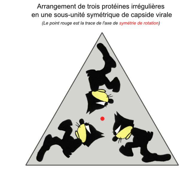 Ordering of three irregular proteins into a regular subunit (triangle) of a virus capsid